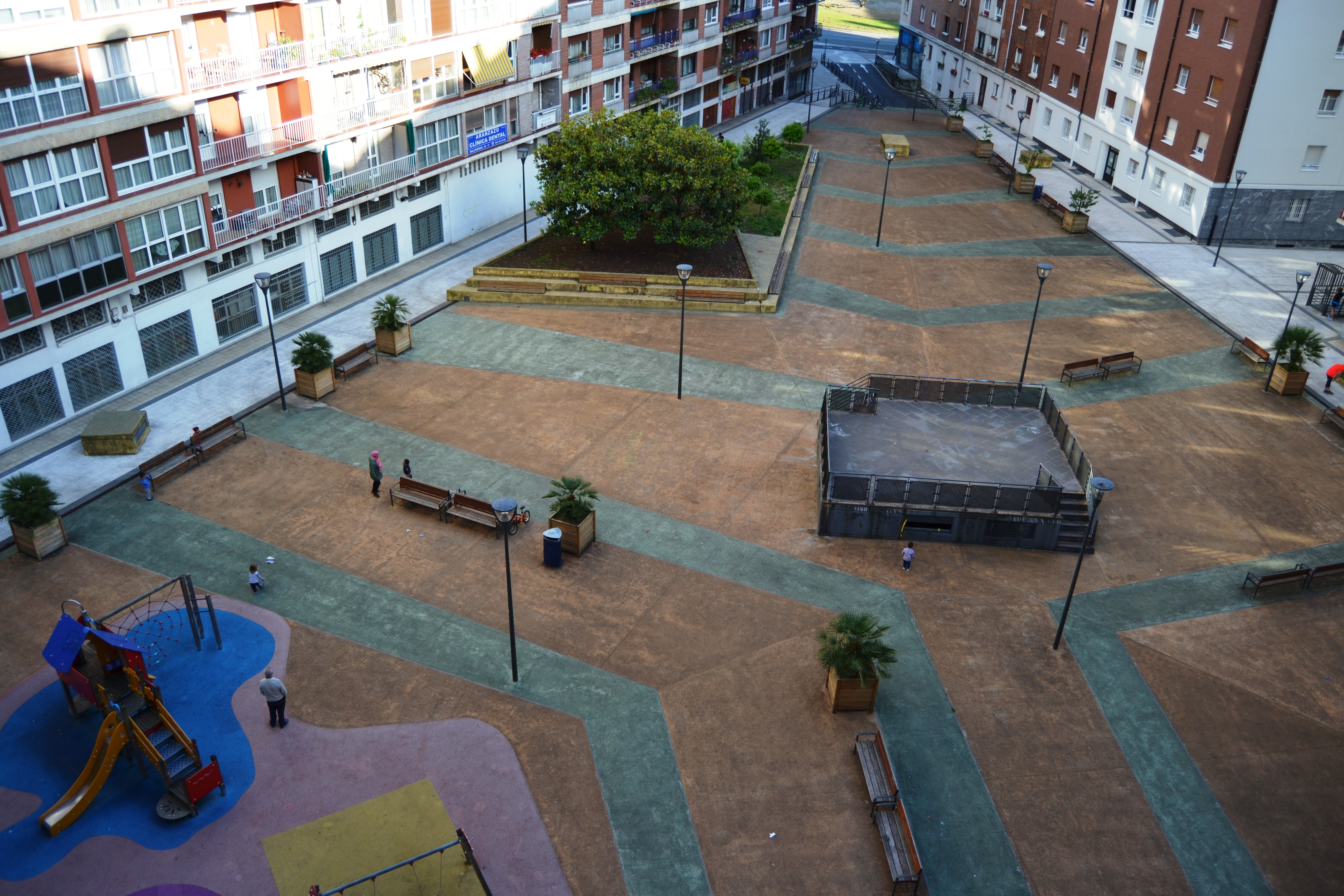 Prebostes square